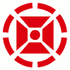 Divisional patch for the British 23rd Division.